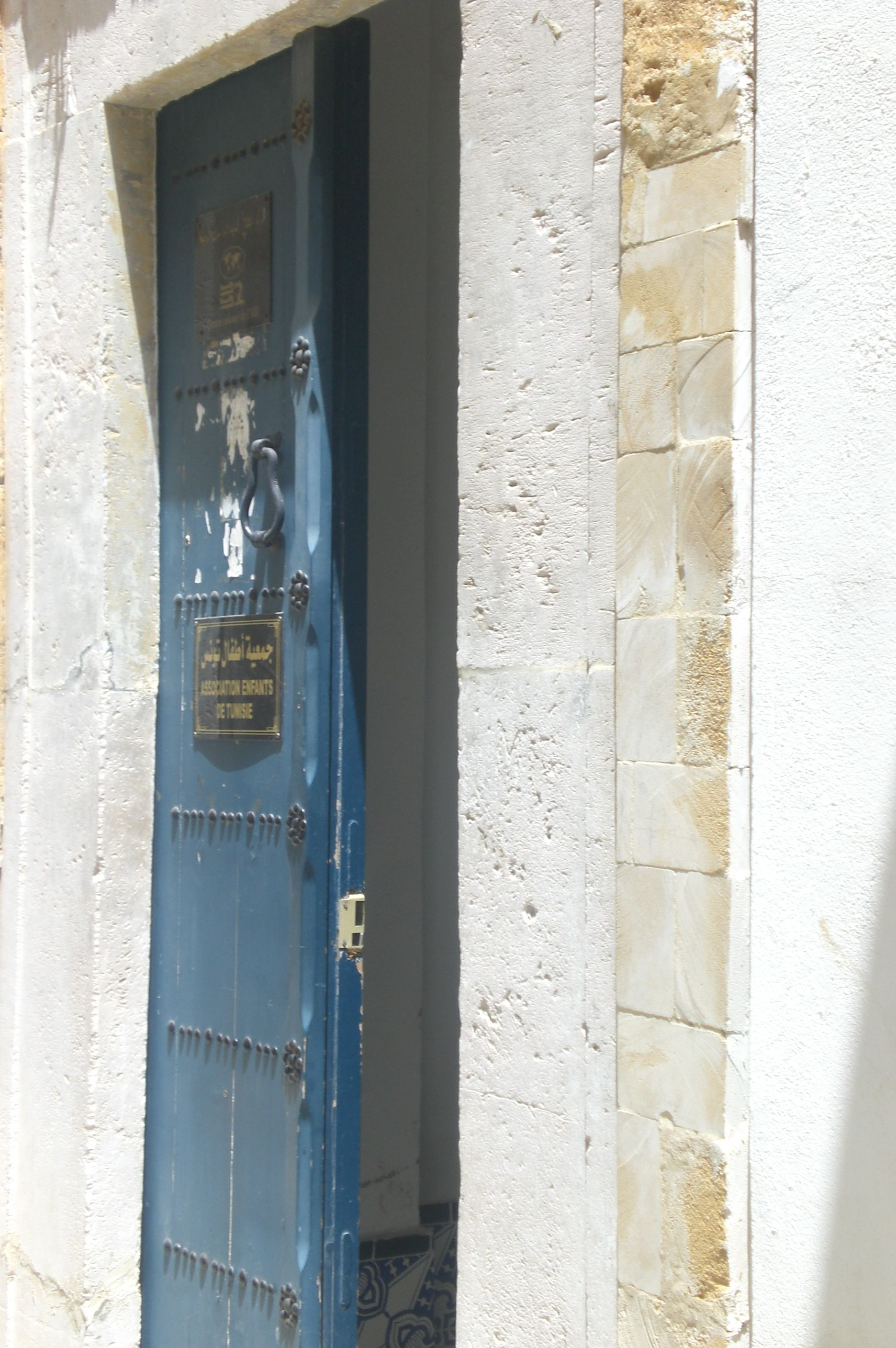 Medersa Asfouria in Tunis